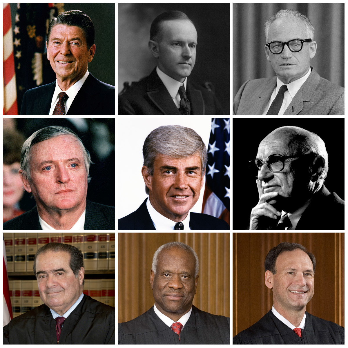 This is a collage of prominent leaders in the conservative movement in the United States. Clockwise from the top center: Calvin Coolidge, Barry Goldwater, Milton Friedman, Samuel Alito, Clarence Thomas, Antonin Scalia, William F. Buckley, Jr., and Ronald Reagan, with Jack Kemp in the center. The image is used in the clickable Template:Imagemap American conservatives which requires a 1200×1200 image with these nine people.